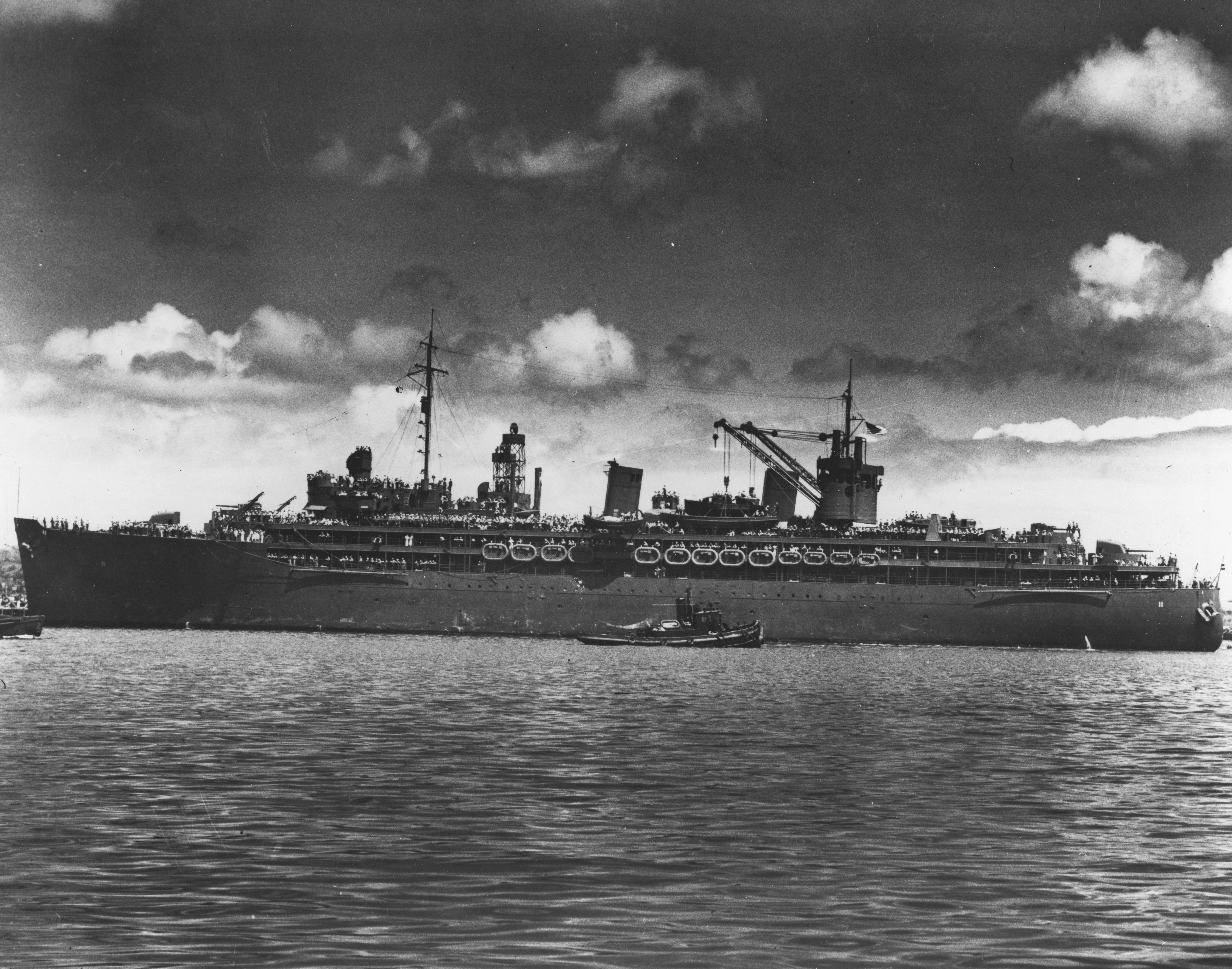 The U.S. Navy submarine tender USS Fulton (AS-11) unloading survivors of the aircraft carrier USS Yorktown (CV-5) and the destroyer USS Hammann (DD-412) after the Battle of Midway at Pearl Harbor, Oahu, Hawaii (USA), on 8 June 1942.